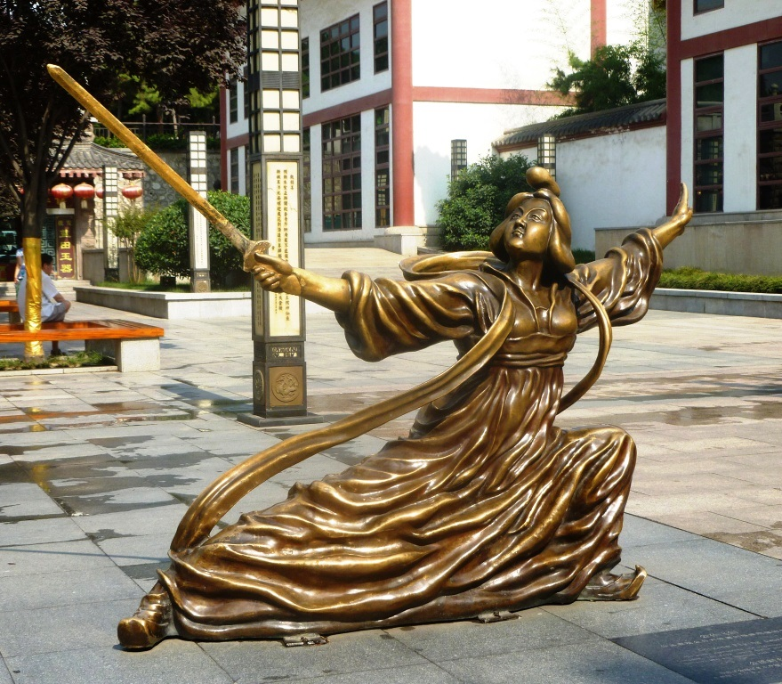 I took this photo on a trip across China in 2011.